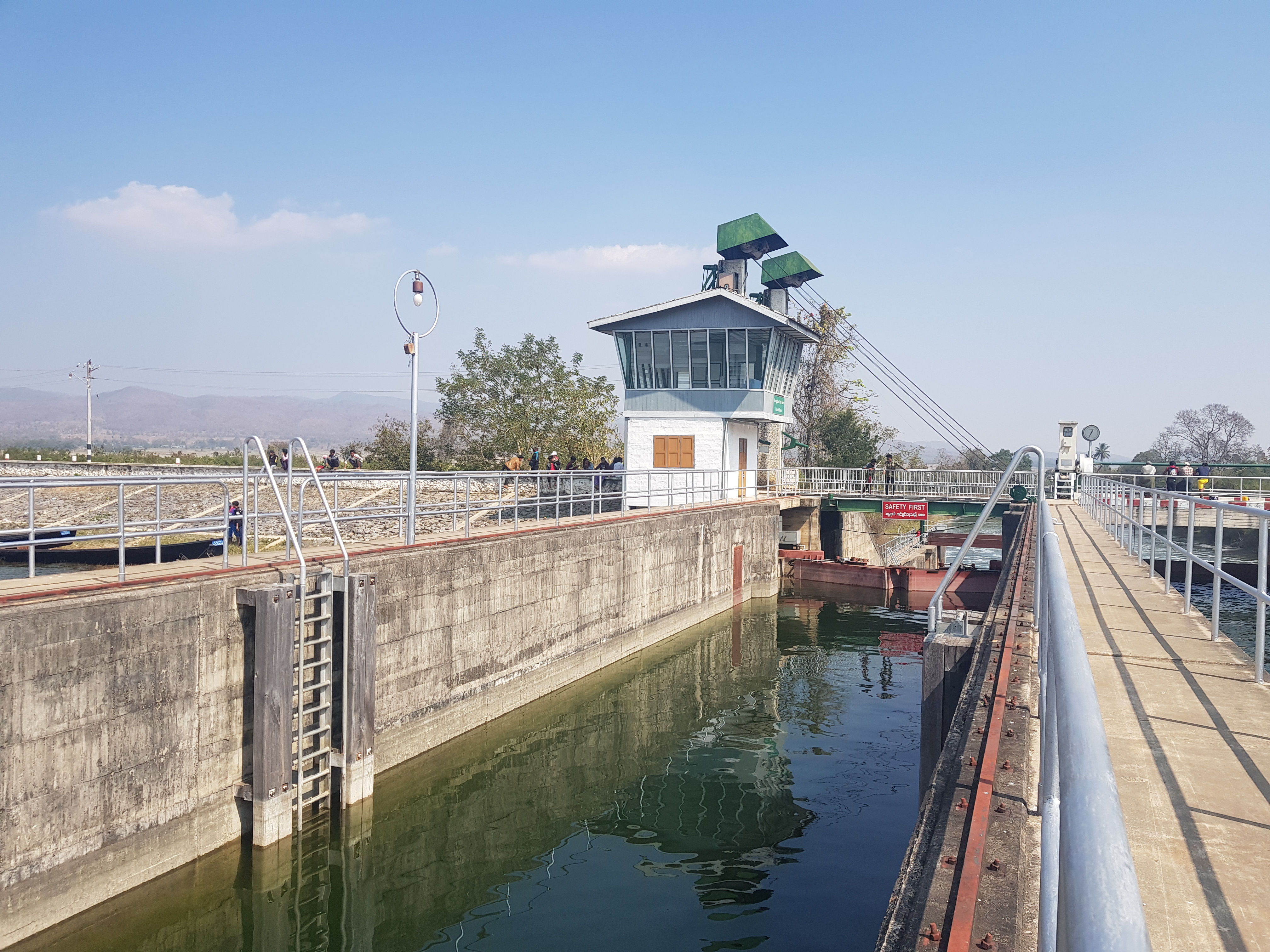 Canal between dam and Baluchaung river